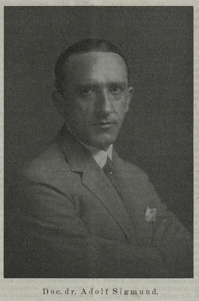 Portrait of Adolf Sigmund (1892-1934), Czech radiologist.